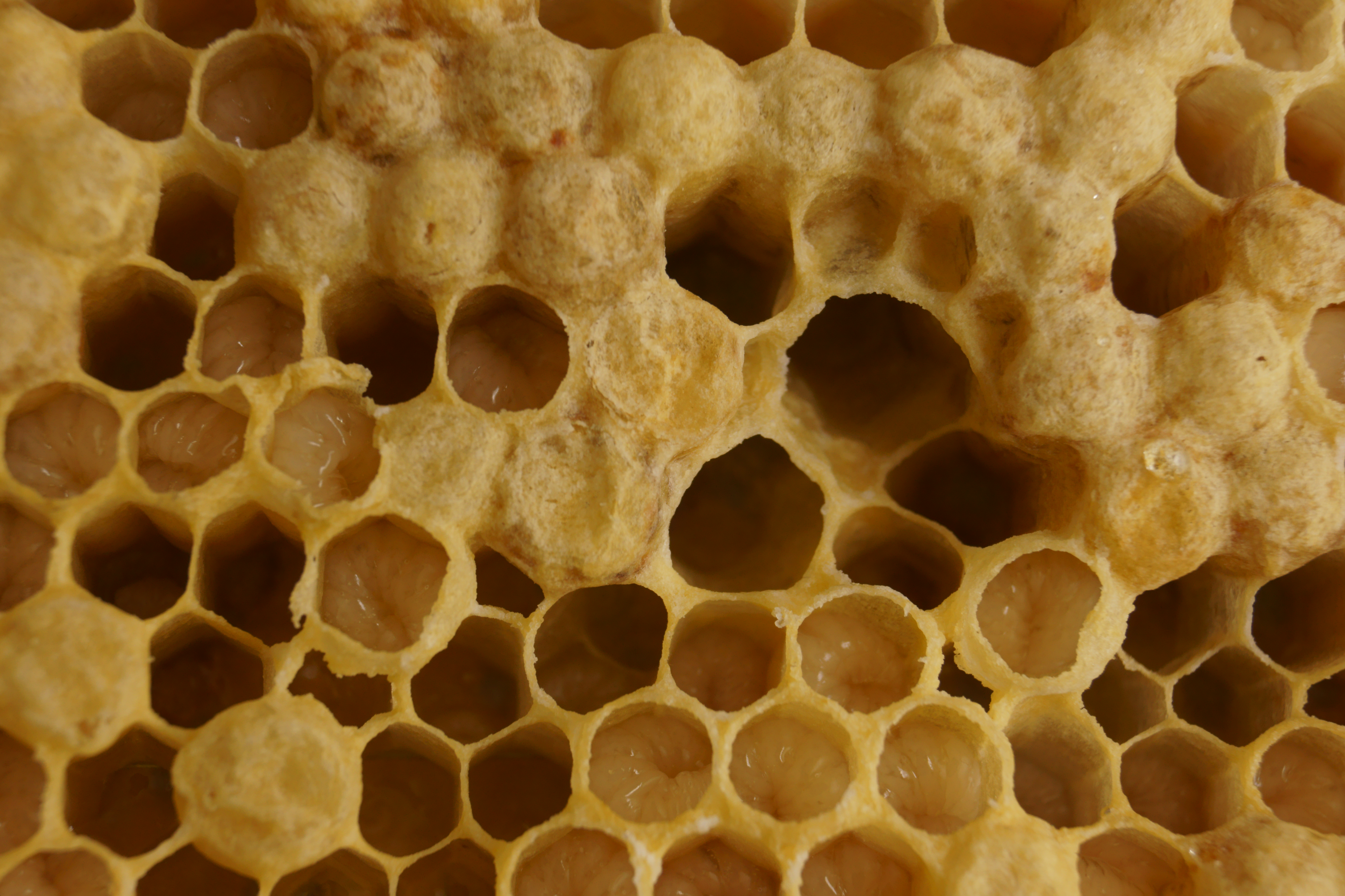 Honeycomb with larvae